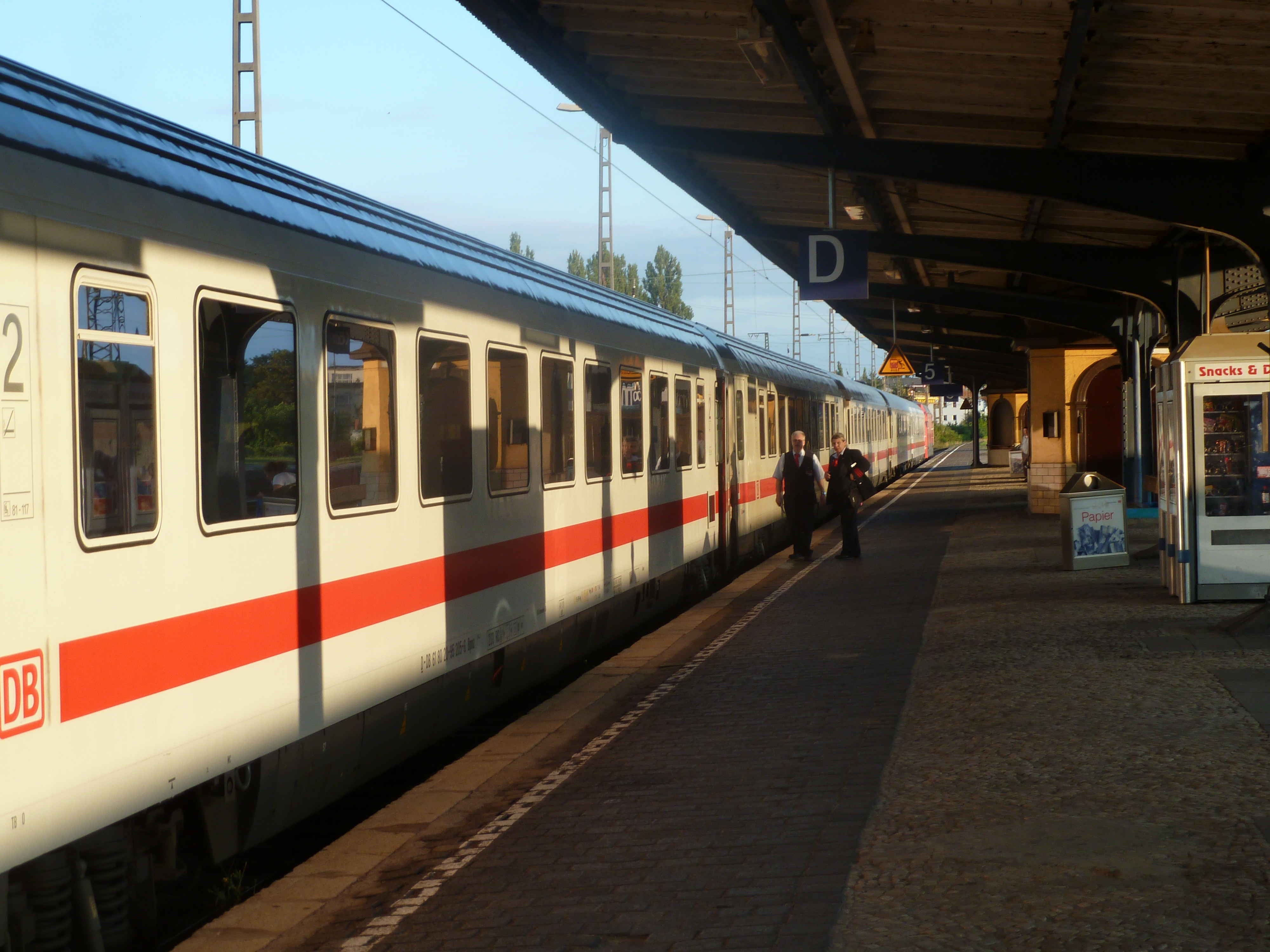 Train station Köthen, Intercity train.